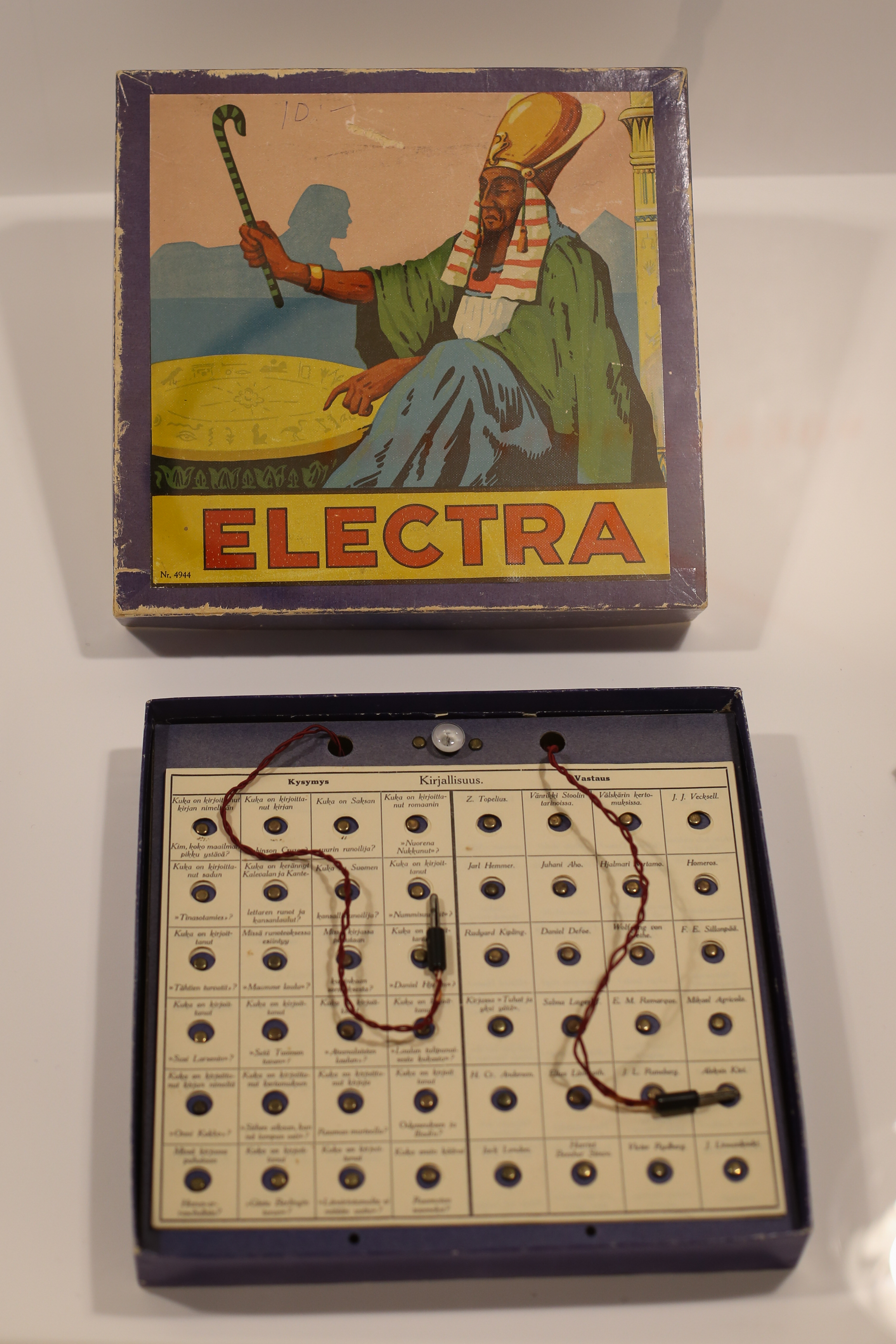 An electronic game Electra from 1930s. The goal of the game is to connect questions with right answers with the wire. It is based on a german game from 1910s. The game is displayed at Rupriikki Media Museum.